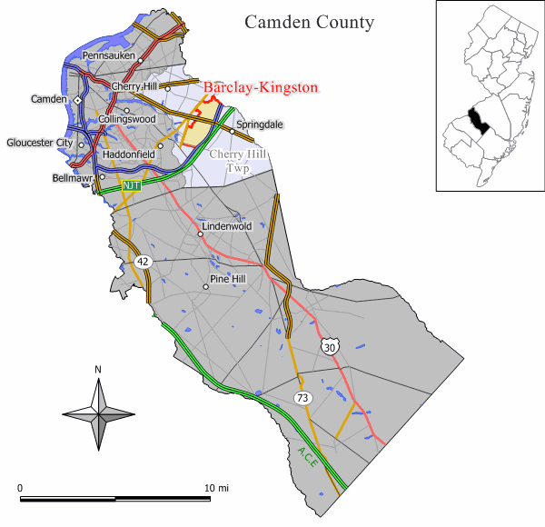 Source: Jim Irwin Original work by Jim Irwin, December 2005.